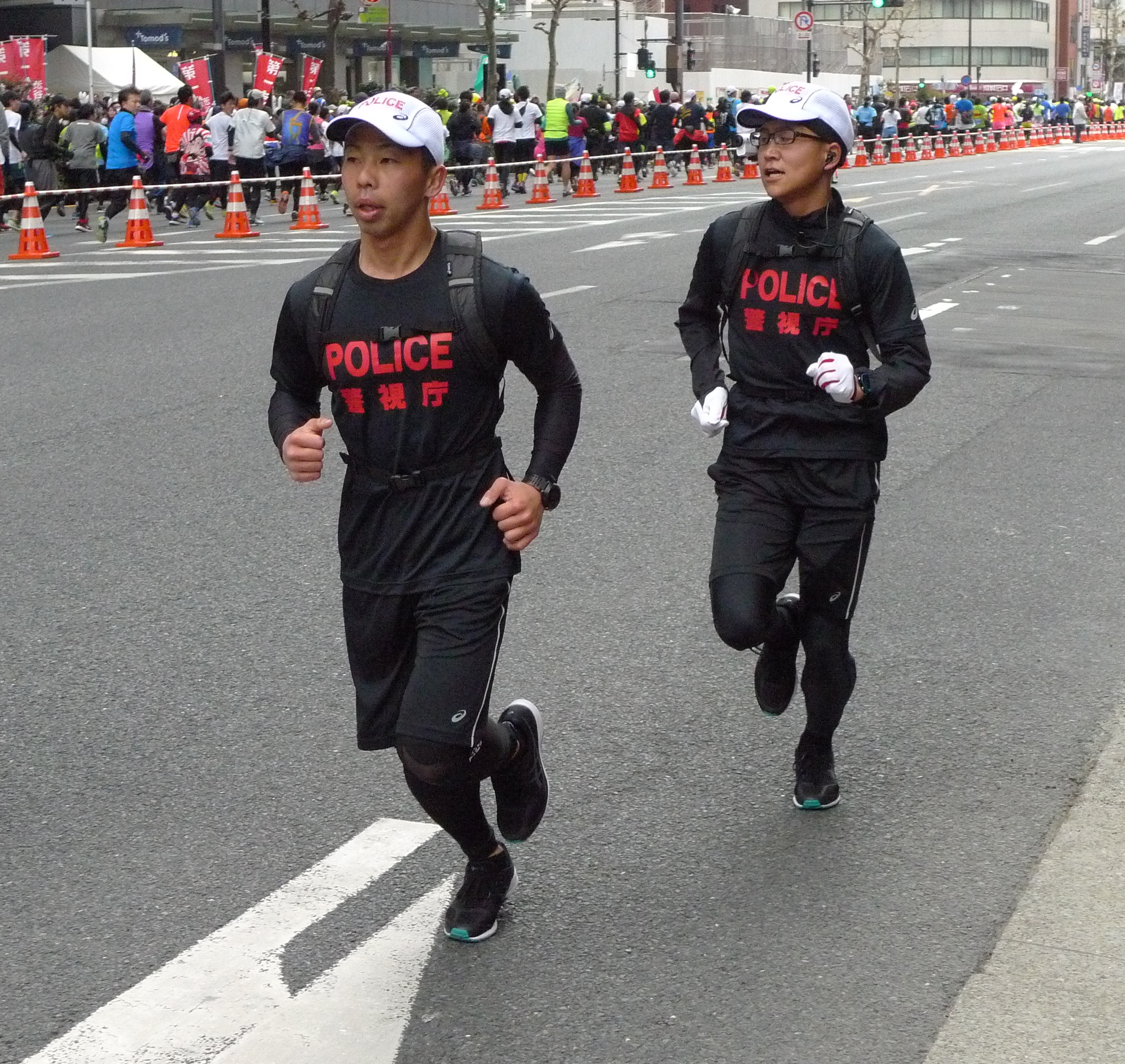 Tokyo Marathon 2018 Runner